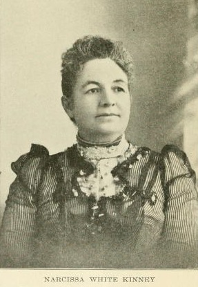 Narcissa Edith White Kinney